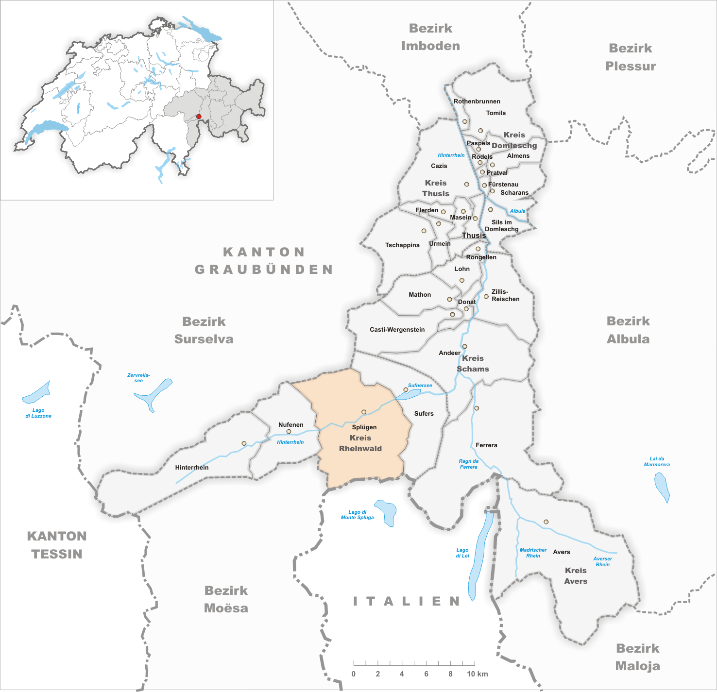 Municipality Splügen